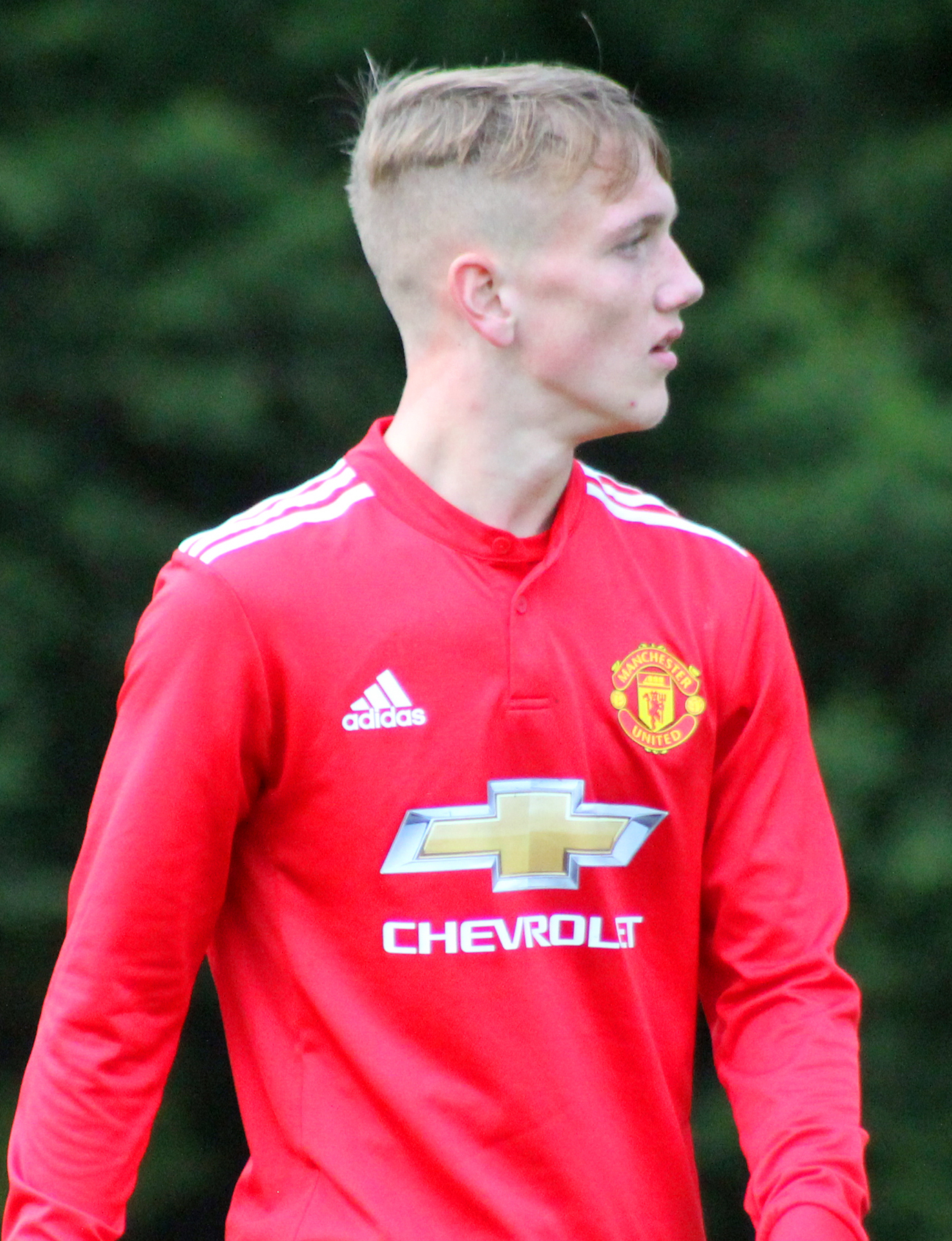 Blackburn Rovers U18s 1-4 Manchester United U18s U18 Premier League North Saturday 18 November Blackburn Rovers Training Centre